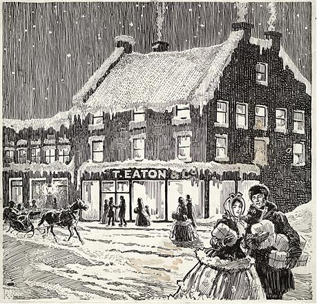 A depiction of the original Eaton's store in Toronto, established by Timothy Eaton on the southwest corner of Yonge and Queen Streets.